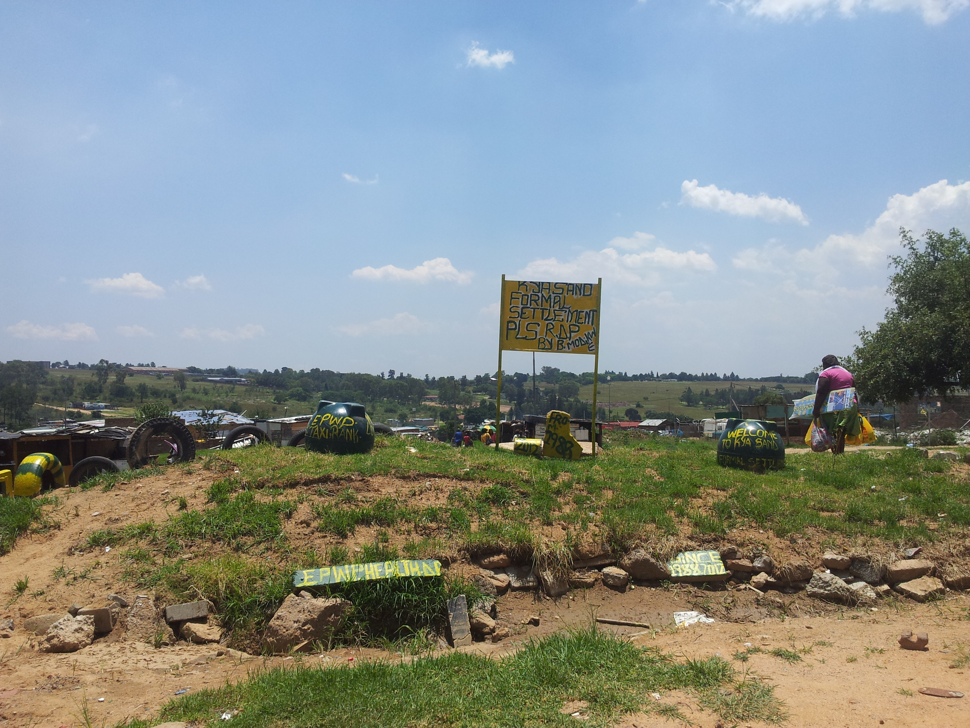 A sign at the entrance of kya sands informal settlement reading "Kya Sands Formal Settlement, Please RDP"